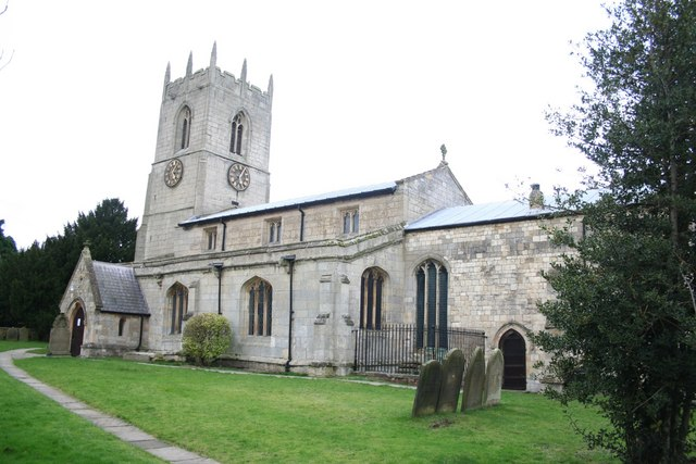 All Saints' parish church, Beckingham, Nottinghamshire, seen from the southeast